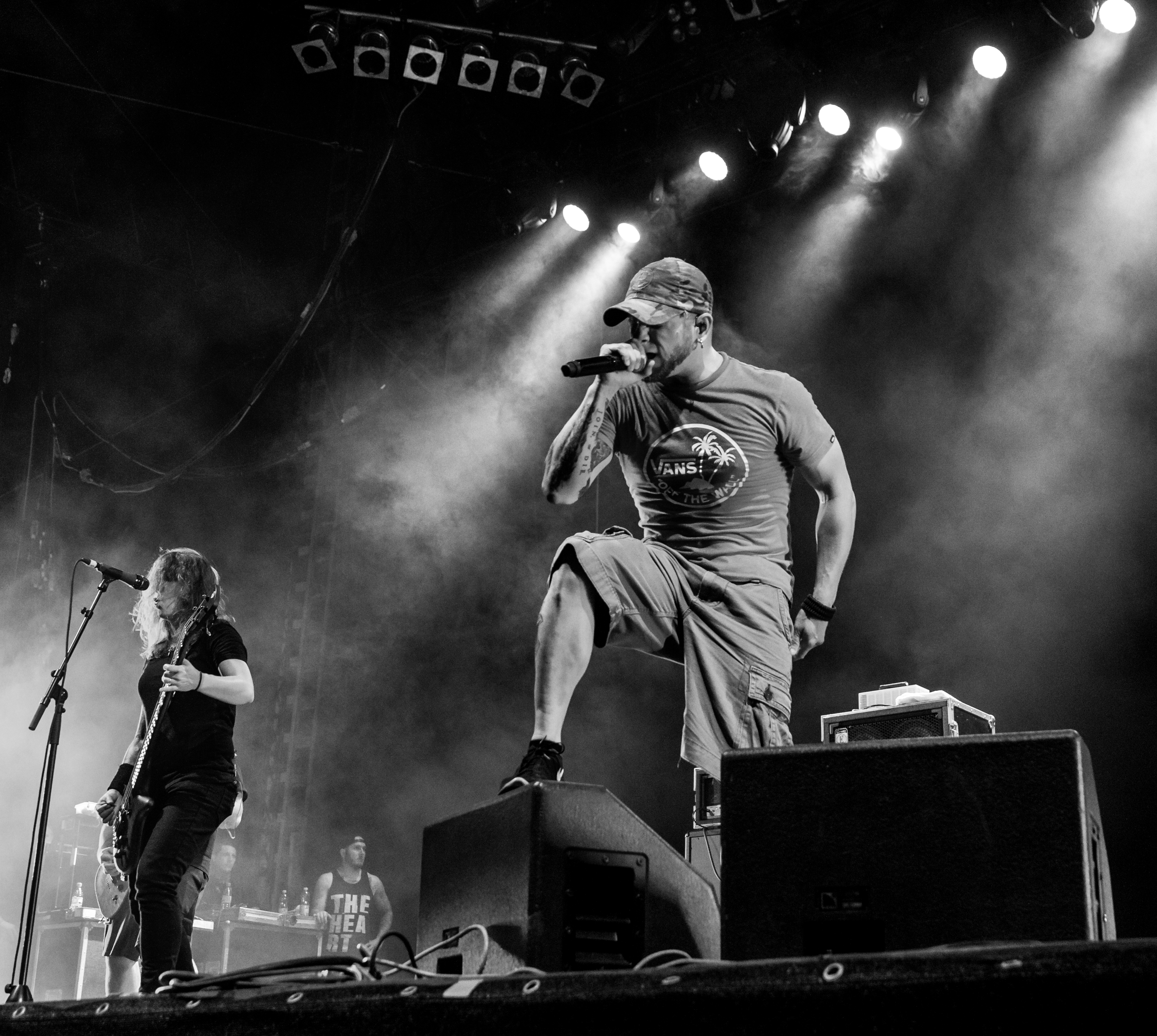 All That Remains - Rock am Ring 2015